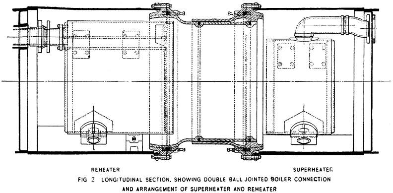 Flexible-boilered Mallet system steam locomotive